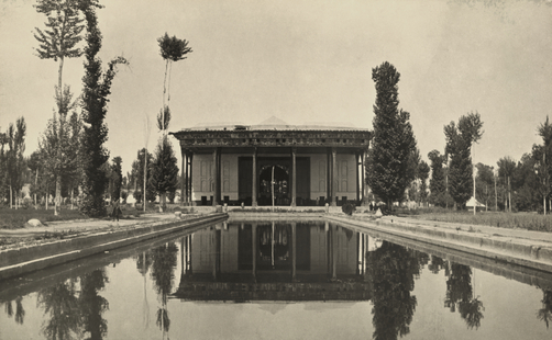 Isfahan ,Iran